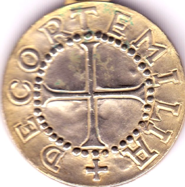 Coin "Marchesano" made in the Zecca of Cortemilia in XIV Century. Verso.